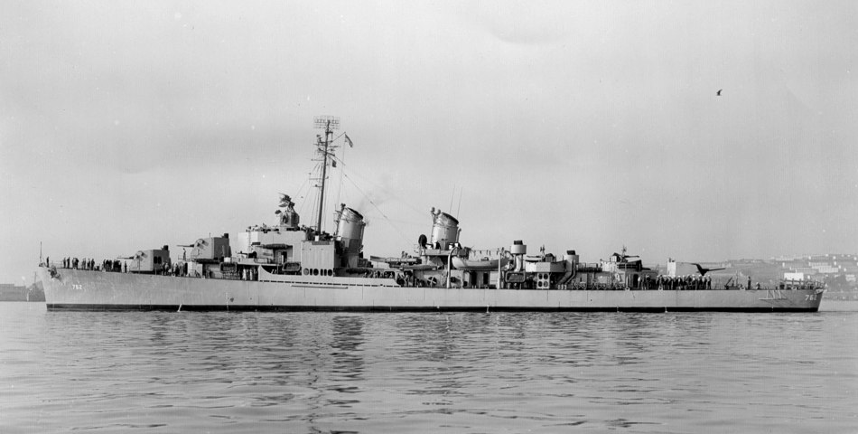 The U.S. Navy destroyer USS Henley (DD-762) off Bethlehem Steel, San Francisco, California (USA), on 16 October 1946.